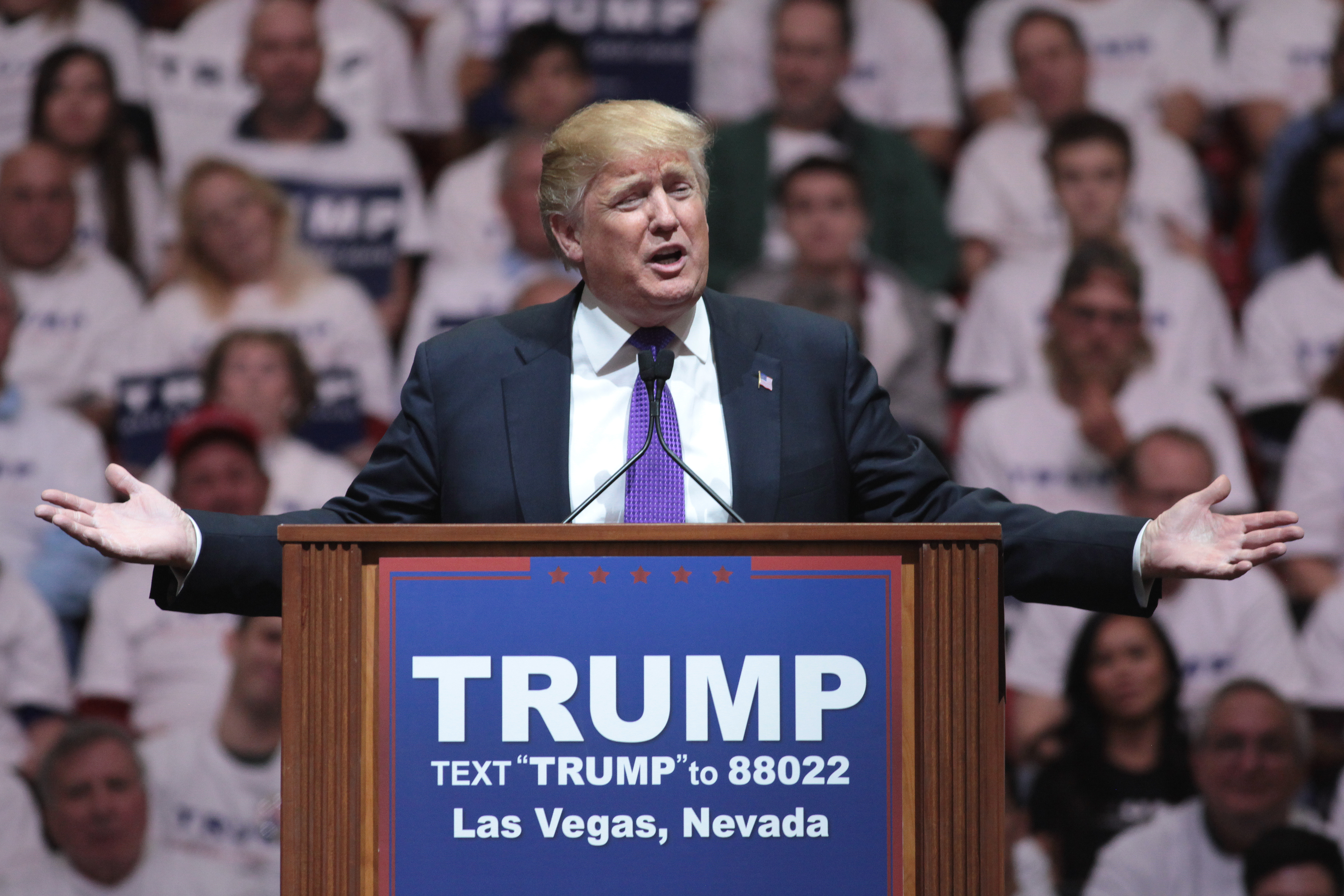 Donald Trump speaking with supporters at a campaign rally at the South Point Arena in Las Vegas, Nevada.